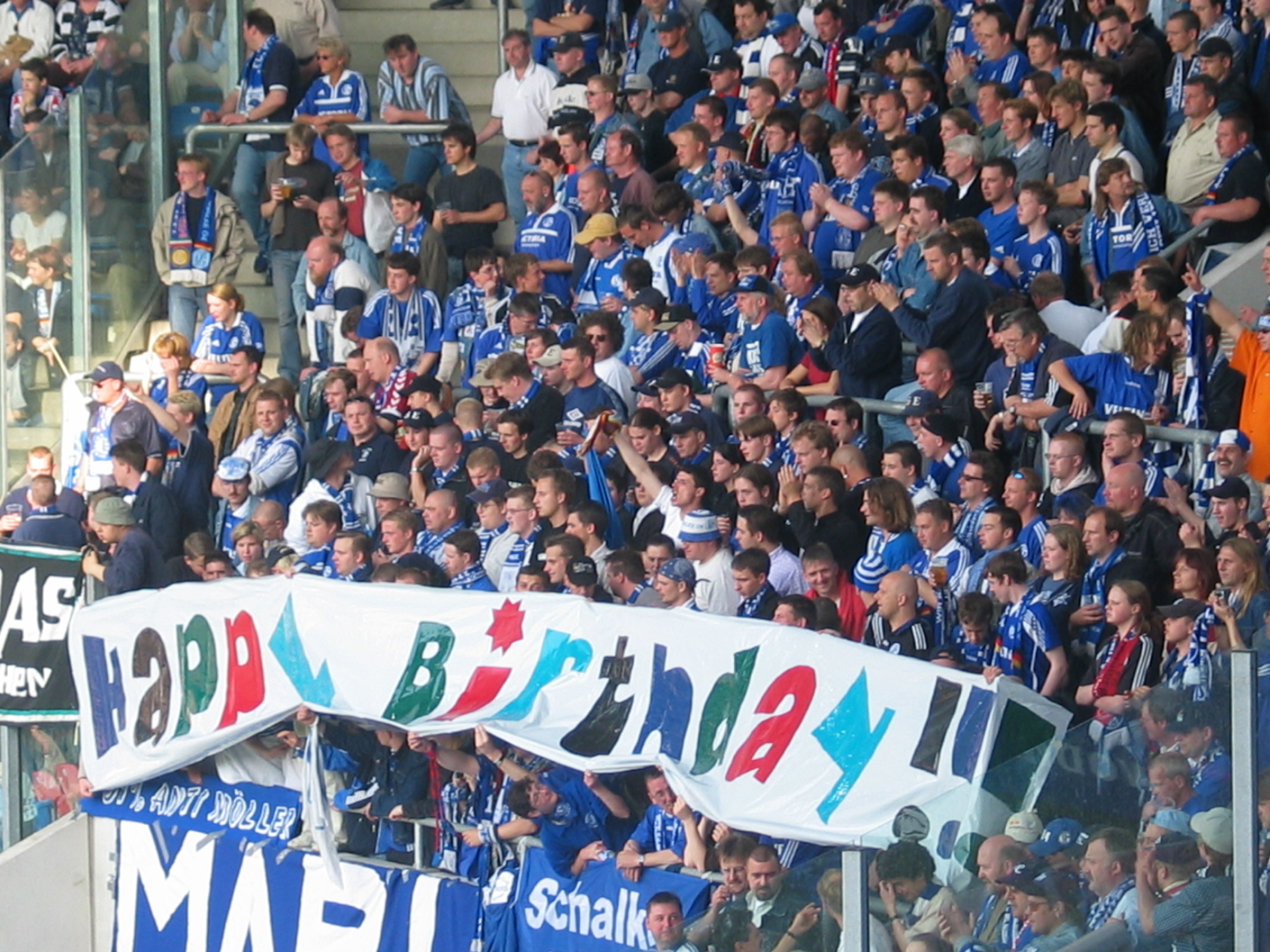 Supporters of the german football club FC Schalke 04